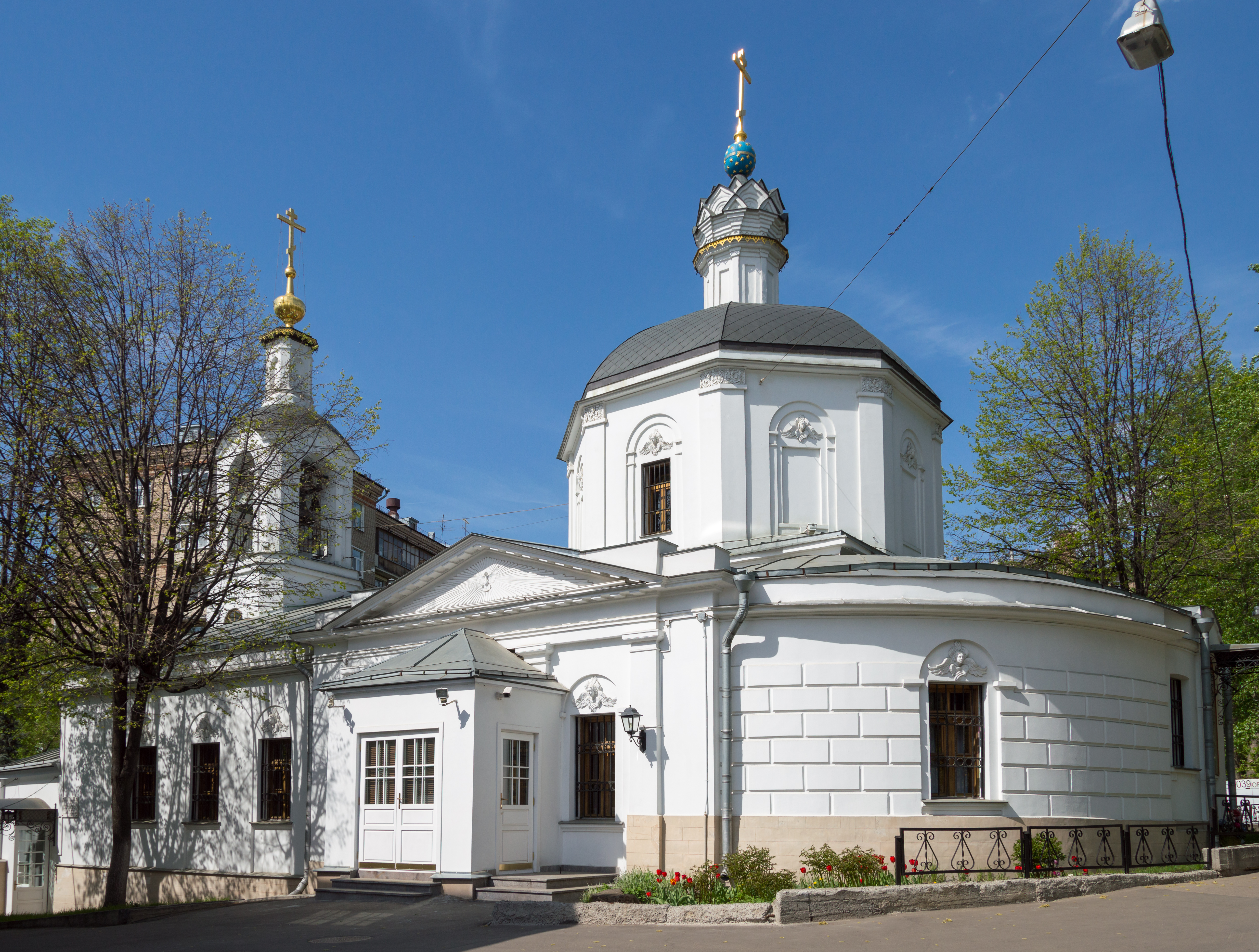 Church of The Protection of Our Lady / Moscow, Russia